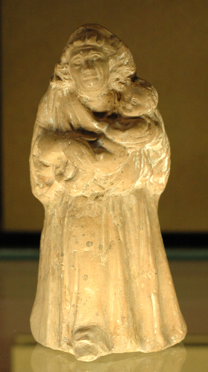 Old nurse holding a newborn. Terracotta coming from Tanagra? Made in Attica? ca. 325–300 BC.